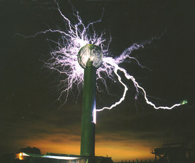 The Electrum sculpture by Eric Orr and Greg Leyh, during testing at Hunter's Point Naval Shipyard, San Francisco, USA. It is claimed to be the world's largest Tesla coil. The 38 foot tower can generate 40 to 50 foot lightning bolts. Orr is silhouetted inside the top terminal.